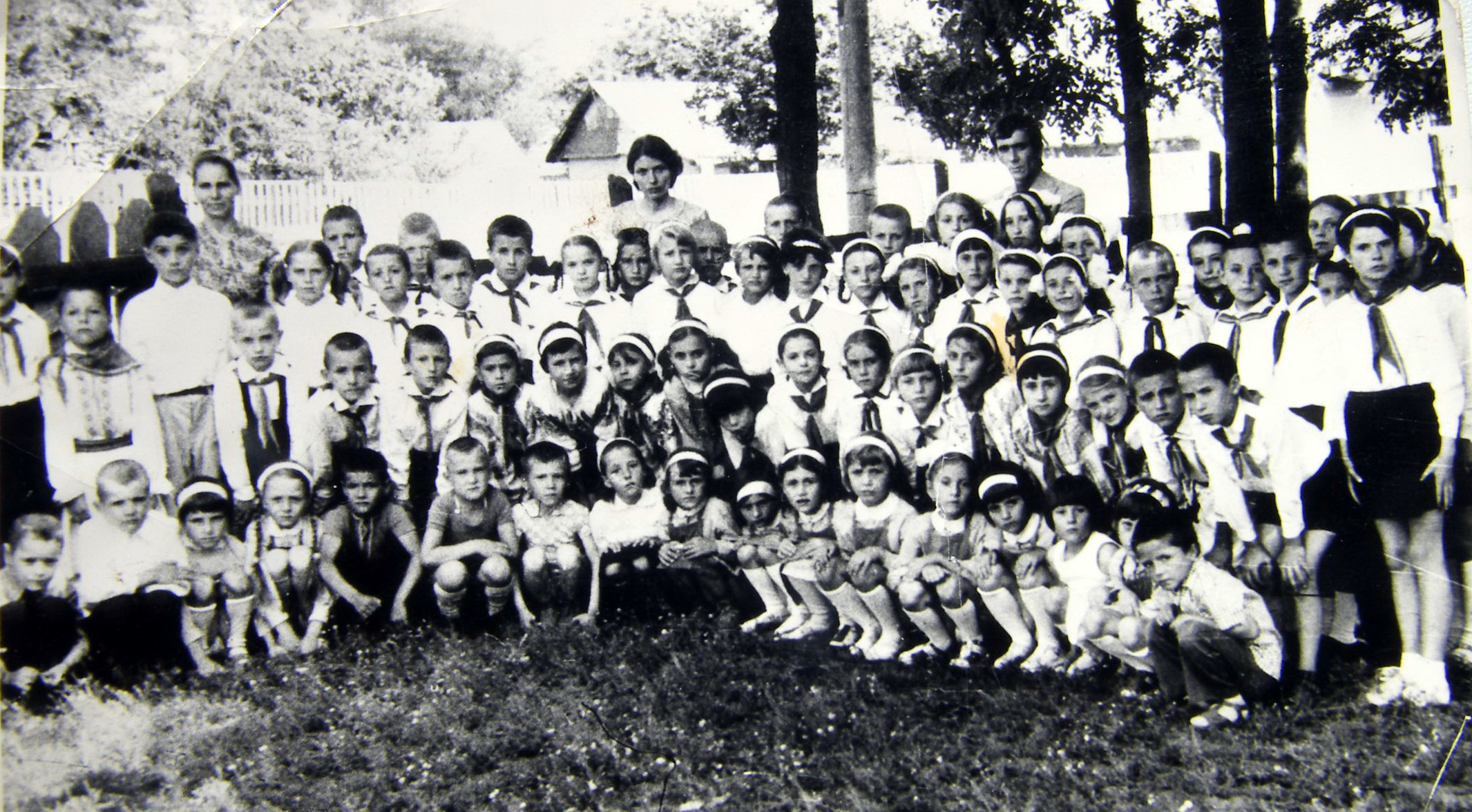 End of year celebration at Public School no. 2 from Bordei Verde commune, Brăila County, România, 1975.